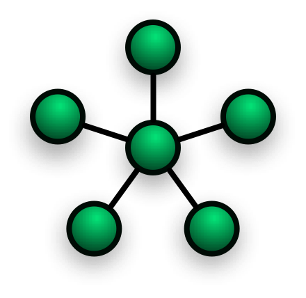 Created by me using OmniGraffle and released into the public domain. Original file available on request.